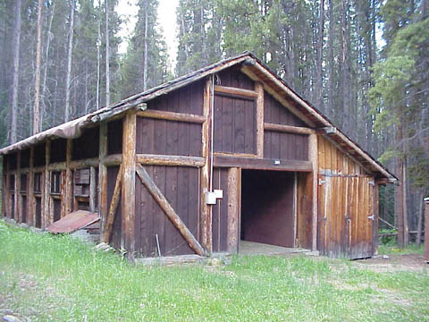 Front of the Timber Creek Road Camp Barn, located off in the Timber Creek Campground off Columbine Lake Road in the Grand County portion of Rocky Mountain National Park, north of Grand Lake, Colorado, United States. Built in 1930, it is listed on the National Register of Historic Places.